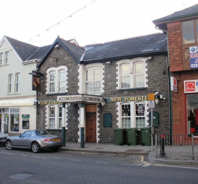 New Foresters, Blackwood Pub at 110 High Street, Blackwood with "Accomodation" (their spelling, not mine) available.